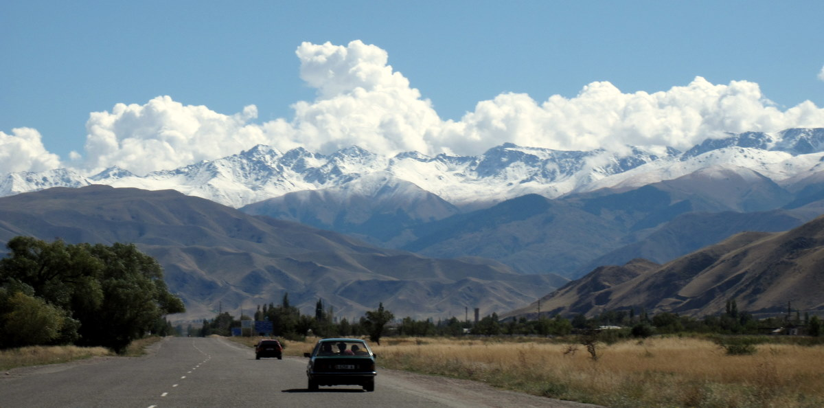 The drive out of Bishkek.